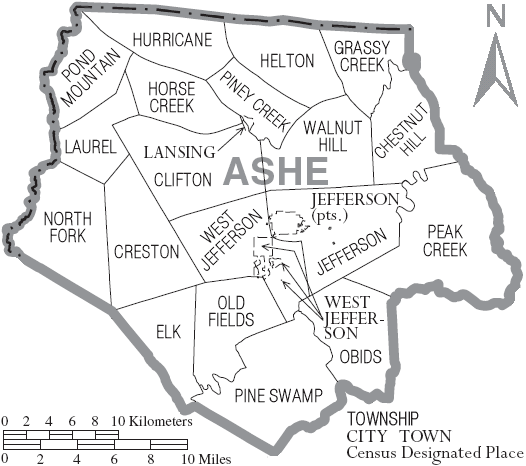 Map of Ashe County, North Carolina, United States with township and municipal boundaries